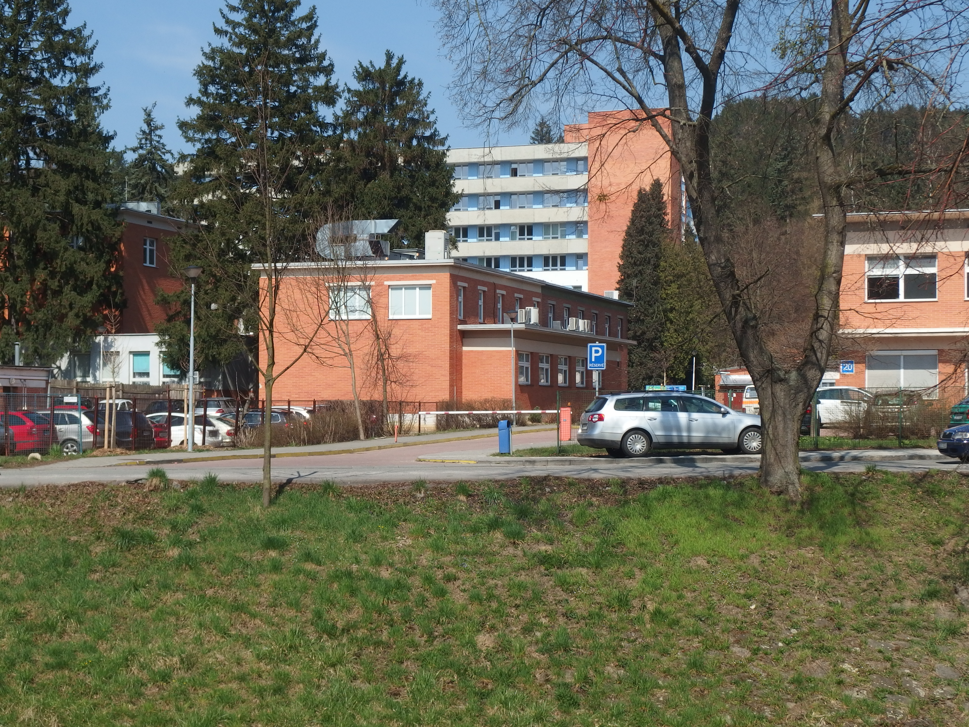 Zlín, Czech Republic. Hospital.